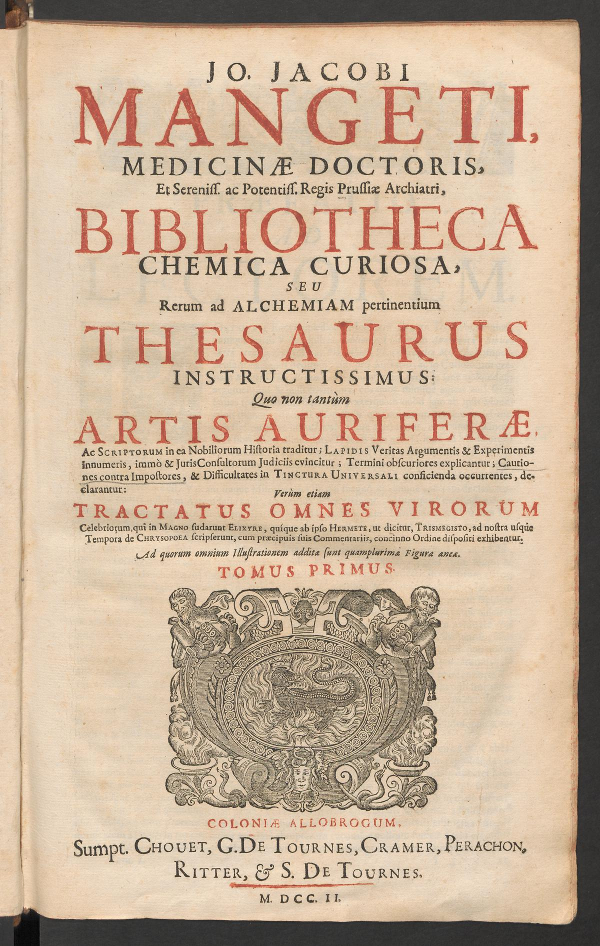 Title page of the first volume of Bibliotheca Chemica Curiosa, 1702 (MDCCII).